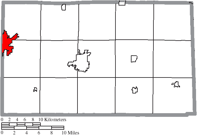 Map of the municipal and township boundaries of Seneca County, Ohio, United States, as of the 2000 census, with the location of the city of Fostoria highlighted. Township borders are shown only in unincorporated areas in order to differentiate incorporated and unincorporated areas more clearly.